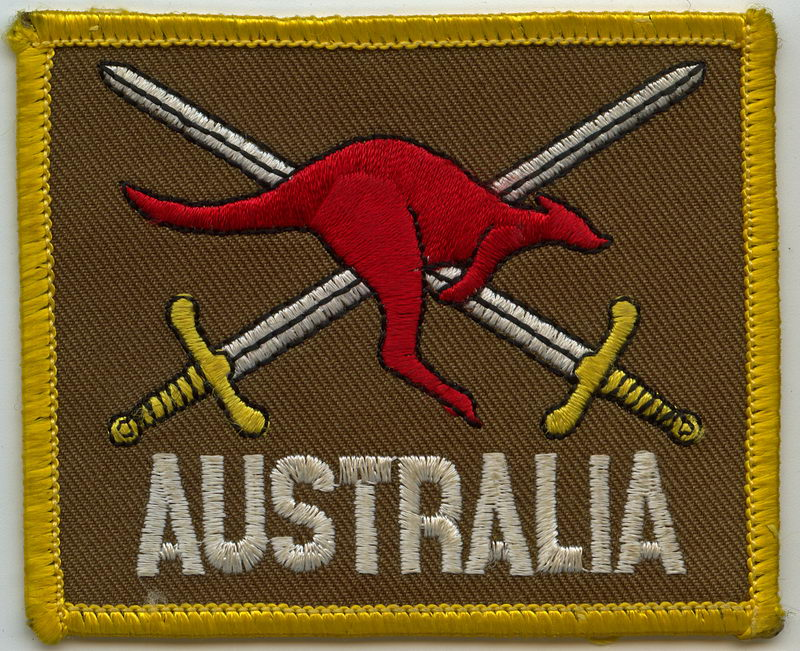 Australia Patch untac 澳大利亚士兵